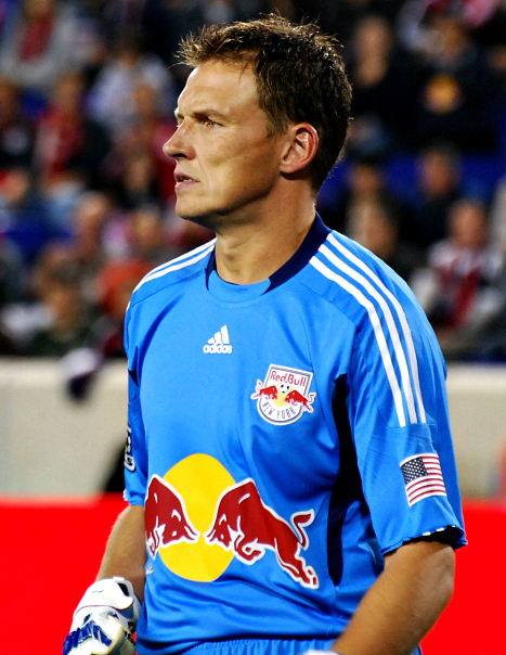 German goalkeeper Frank Rost against the Portland Timbers in 2010.